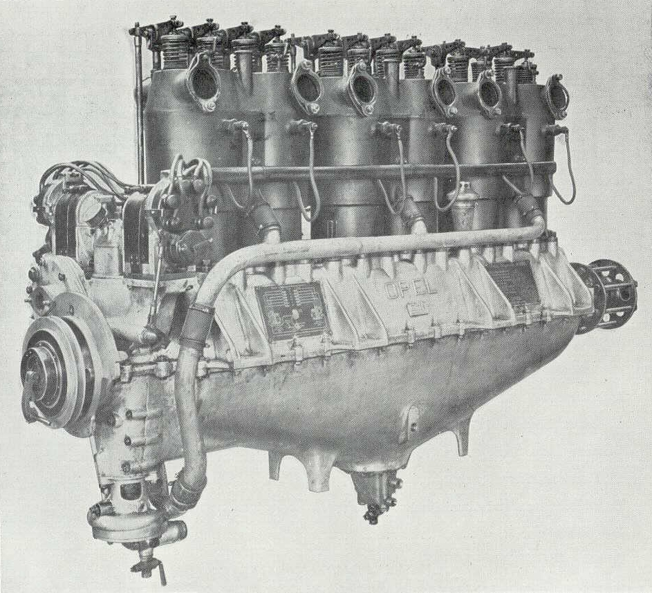 Argus As III (O) aircraft engine, produced under license by Opel during World War 1, exhaust side.